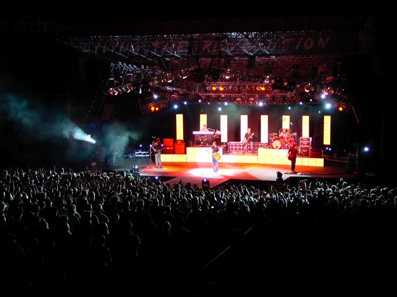 An example of a large concert stage.